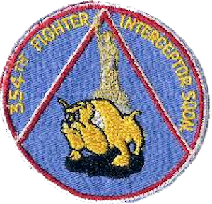 Emblem of the USAF 354th Fighter-Interceptor Squadron (ADC)